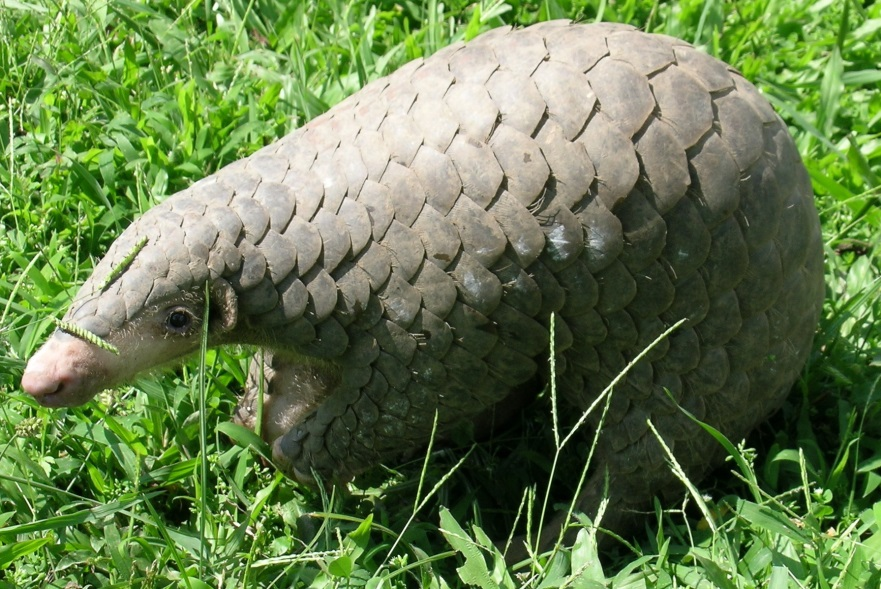 Photo credit to Ms. Sarita Jnawali of NTNC – Central Zoo The United States is co-sponsoring four separate proposals to increase CITES protections for pangolins from Appendix II to Appendix I